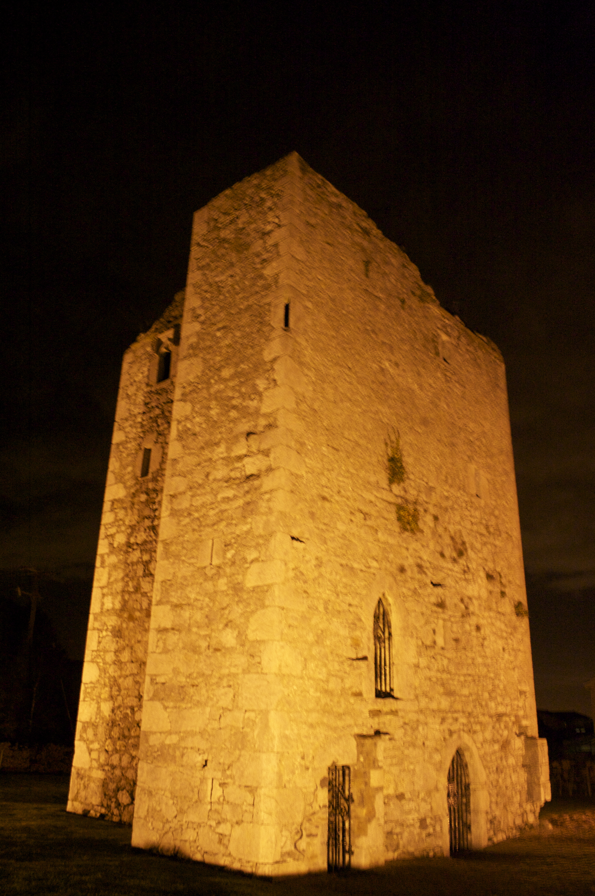 Corr Castle, Sutton, Dublin 13 at night